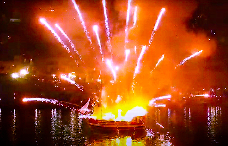 Navarinia 2018, Pylos, Messinia, Greece